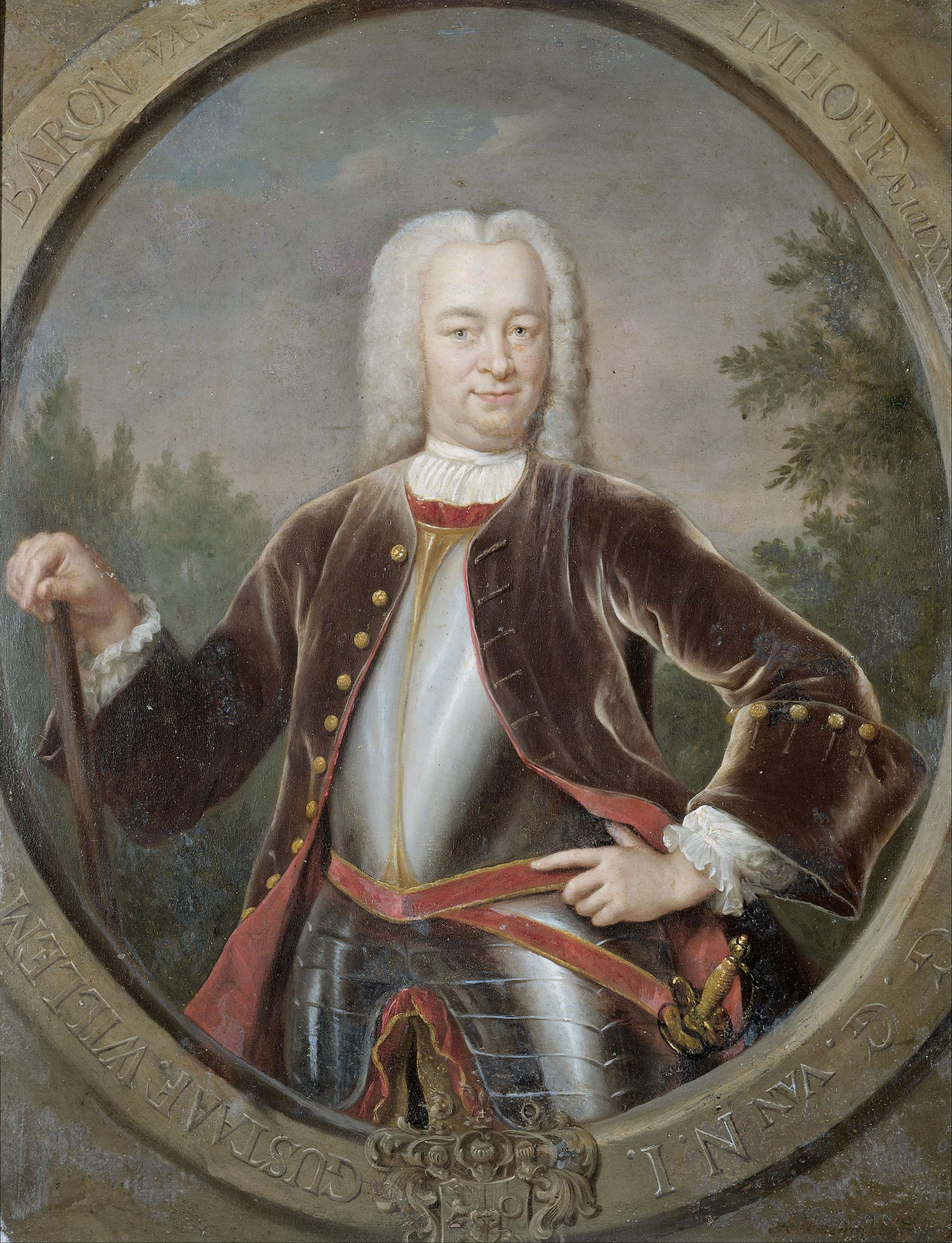 Half-length portrait of Gustaaf Willem Baron van Imhoff (1705-1750), Governor-General of the Dutch East Indies from 1743 to 1750. Part of the Governors-general series.